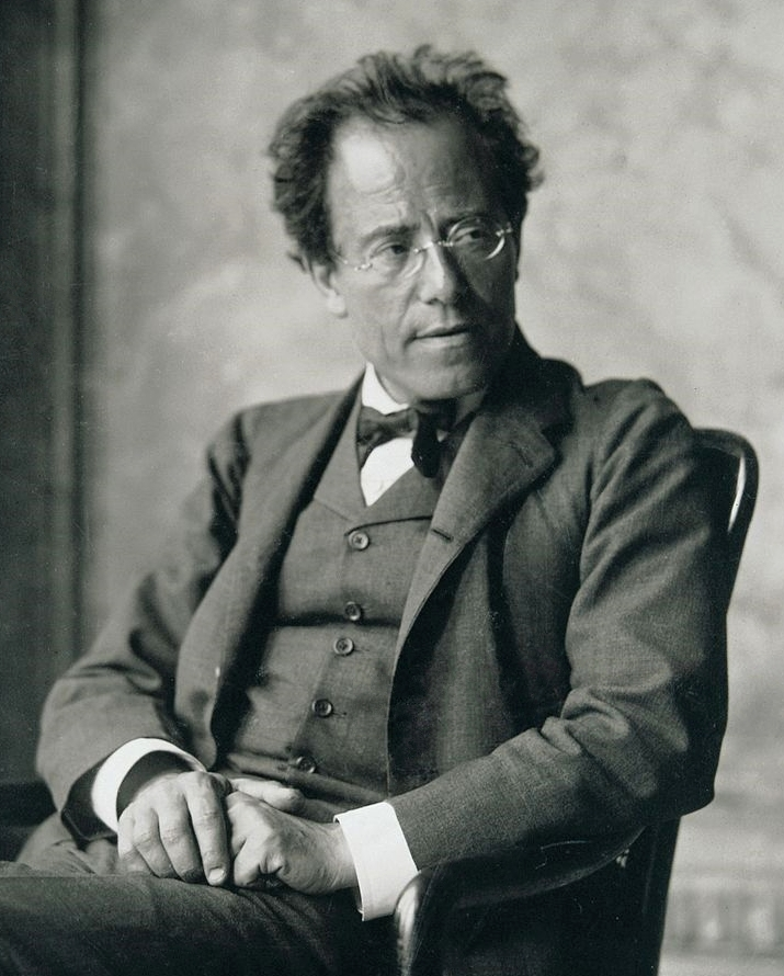 Photograph of Gustav Mahler in the Foyer of the Hofoper, Vienna; this work was published on plate 12 of Richard Specht's Gustav Mahler (1913), Berlin and Leipzig: Schuster and Loeffler. This is a studio portrait and the photographer has set up lighting and pose; hence, it is a lichtbildwerk, photographic work (of art), subject to 70 years pma copyright protection per Austrian law.